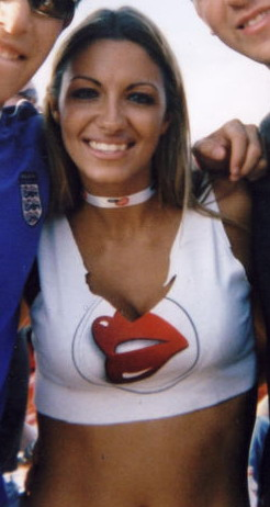 Jodie Marsh (born 23 December 1978) is an English glamour model and television personality